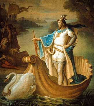 A painting from Neuschwanstein